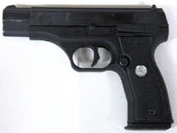 I took this picture of a Polymer Framed Colt All American 2000 pistol in my collection and release it to the public domain.